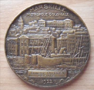 Bronze medal of the Exposition coloniale in Marseille (France), 1922.